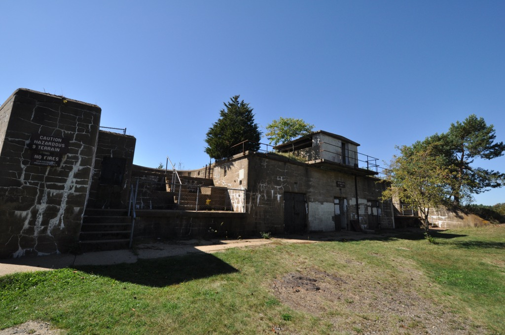 Fort Stark, New Castle, New Hampshire. Backside of Battery Lytle (two 3-inch guns).